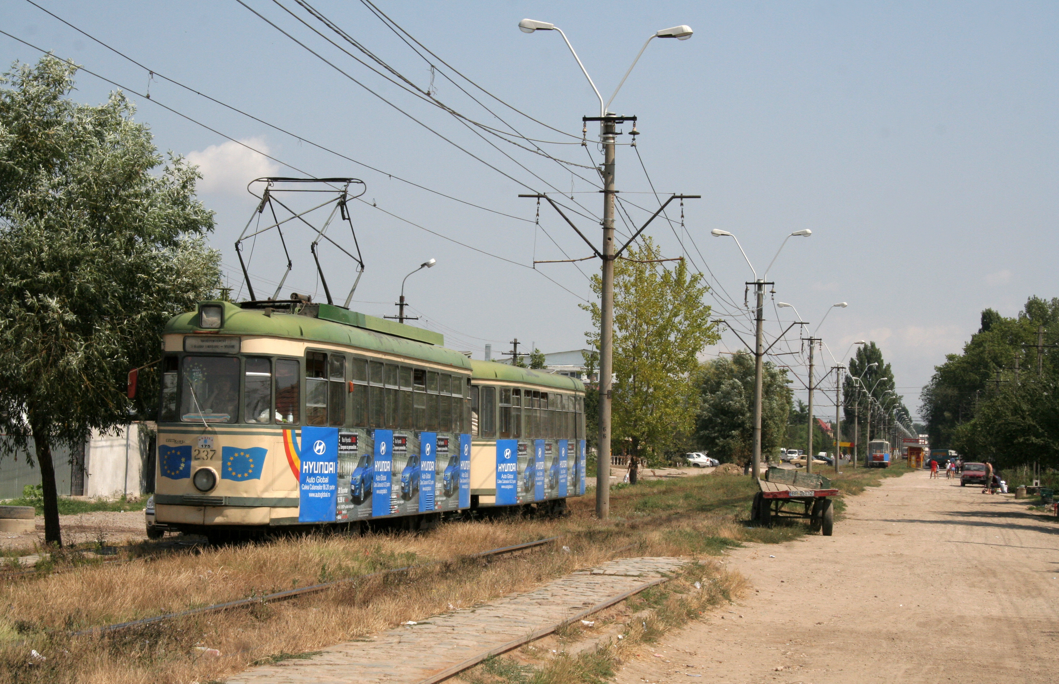 Tram in Braila